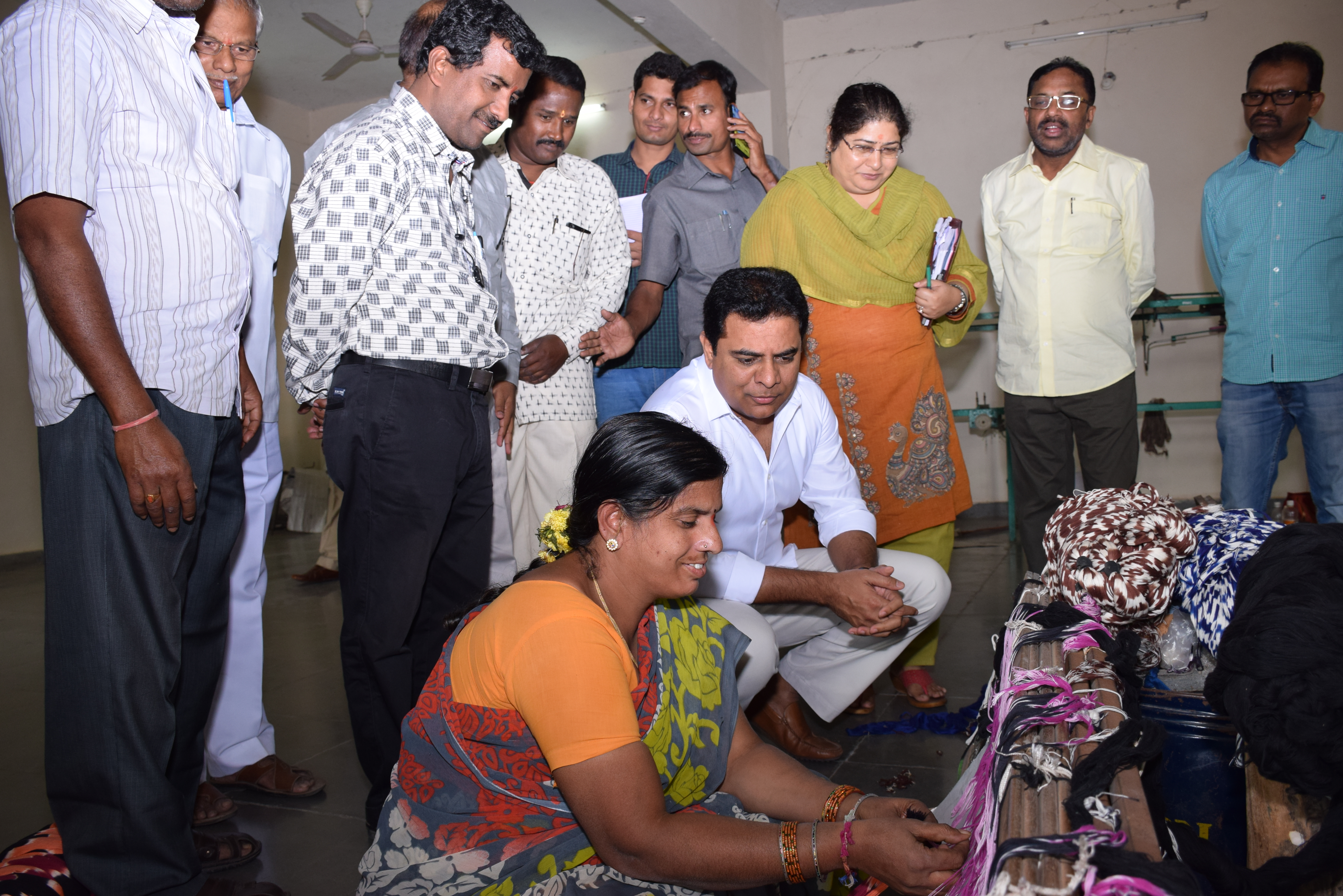 KTR observing Handloom Work